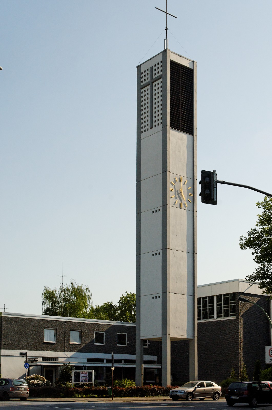 Anbetungskirche in Düsseldorf-Hassels, Germany